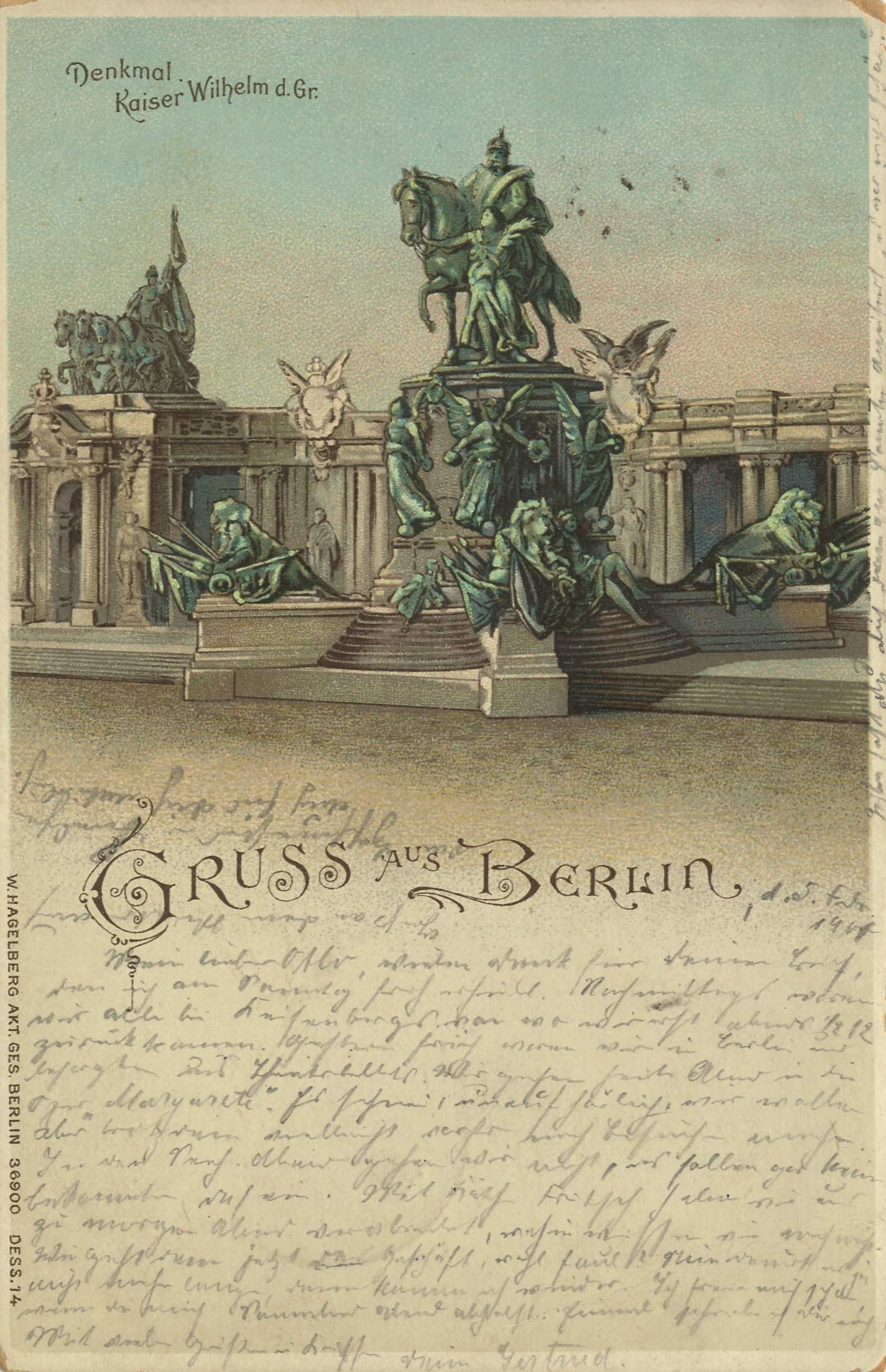 Berlin - an old postcard with Kaiser Wilhelm memorial